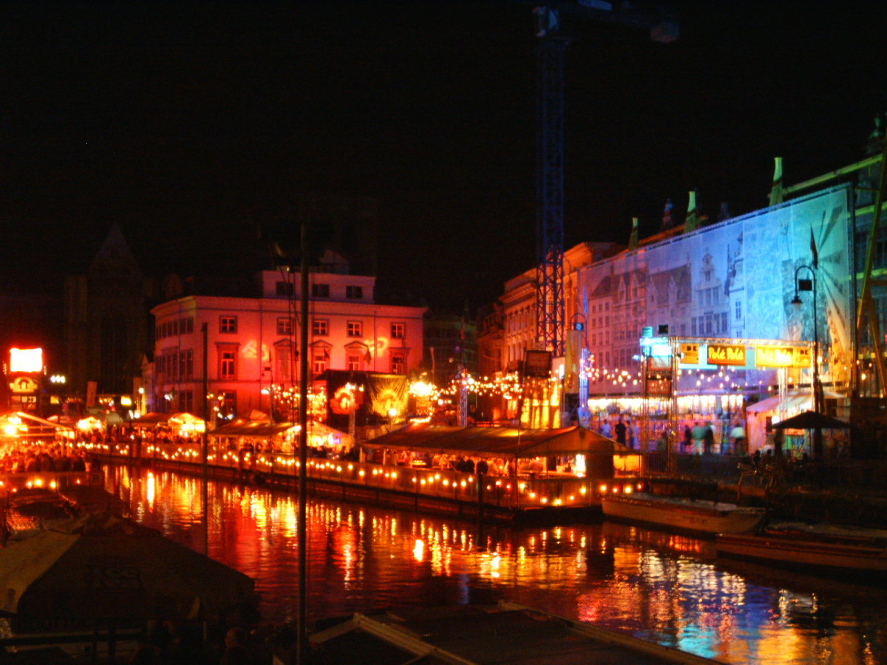 Overview of the "Pole Pole" section of the city festival "Gentse Feesten", organised every year during the second halve of July. This picture was taken on july 27, 2004.